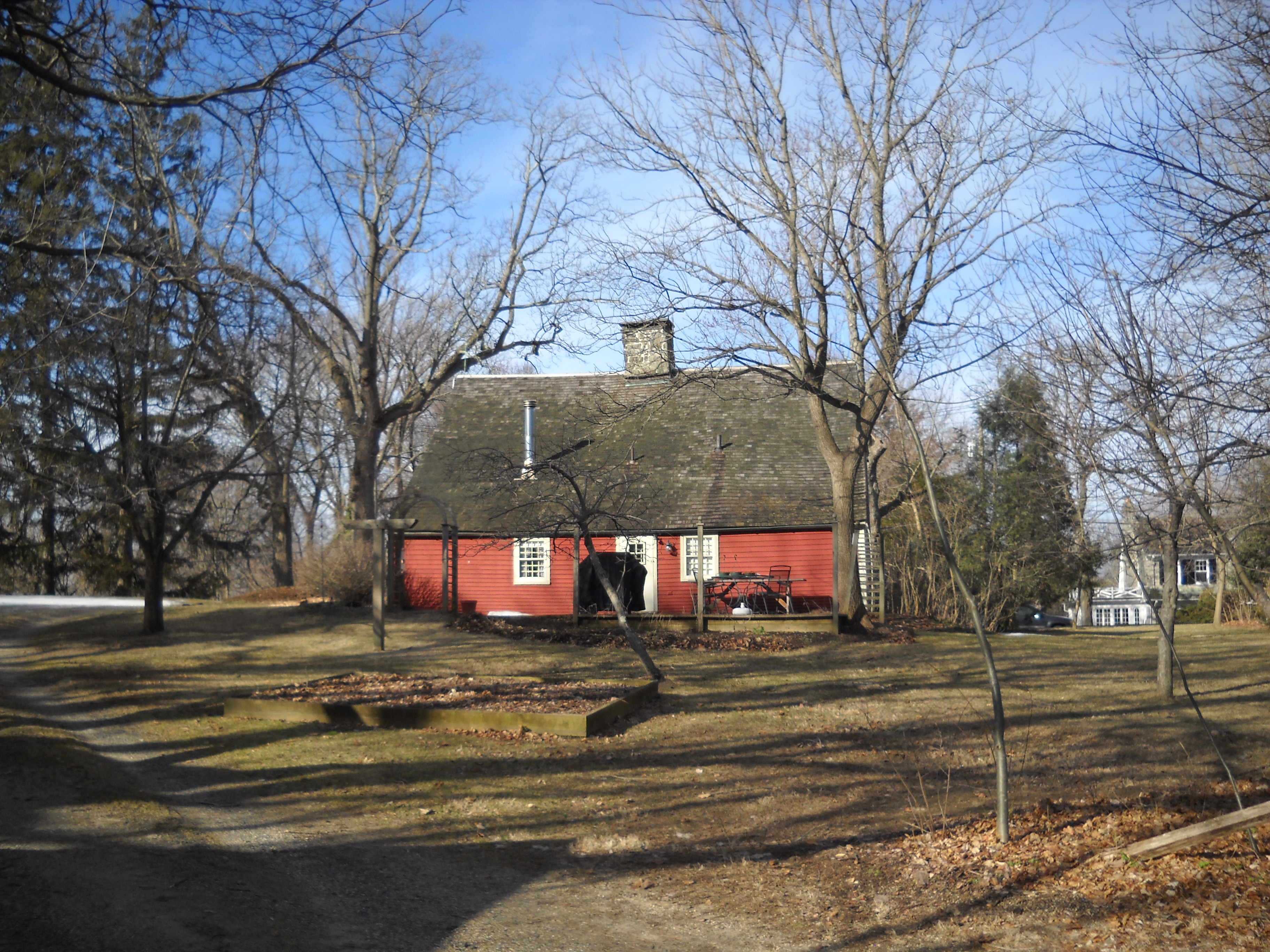 Ephraim Hawley House rear view April 2015 showing catslide roof.